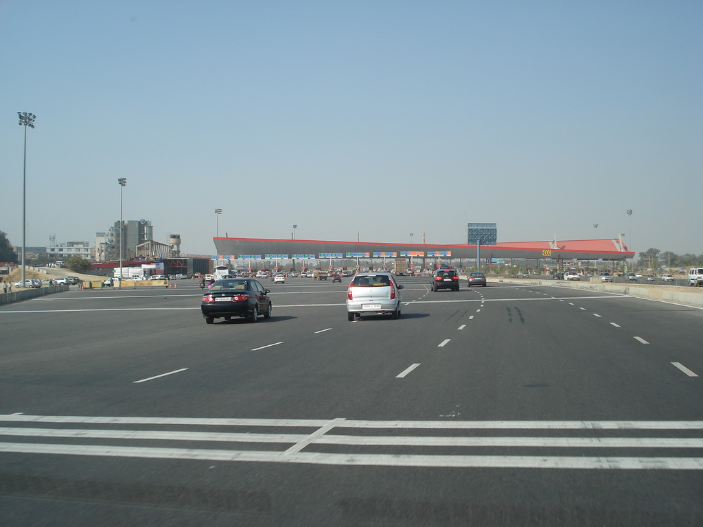 Largest Toll gate in india and third largest in Asia